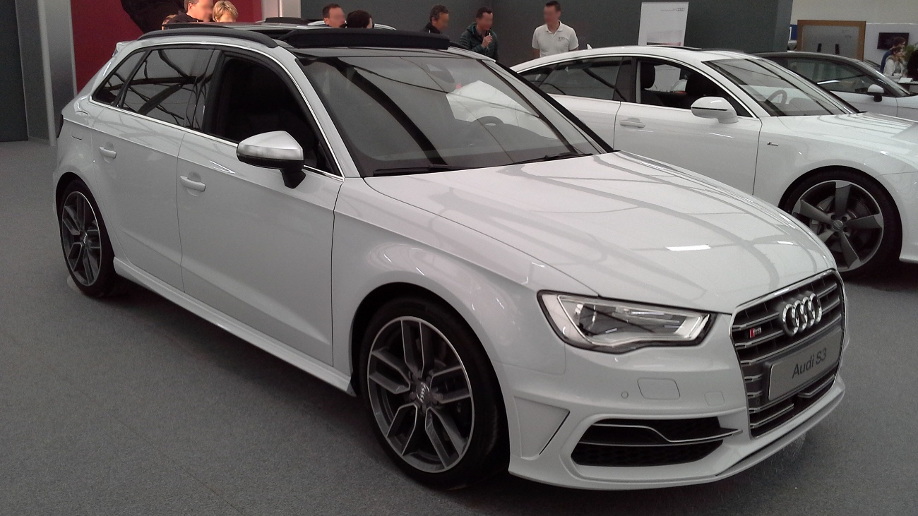 Audi S3 8V Sportback photographed at the 2014 Avignon Motor Festival in Avignon, France.